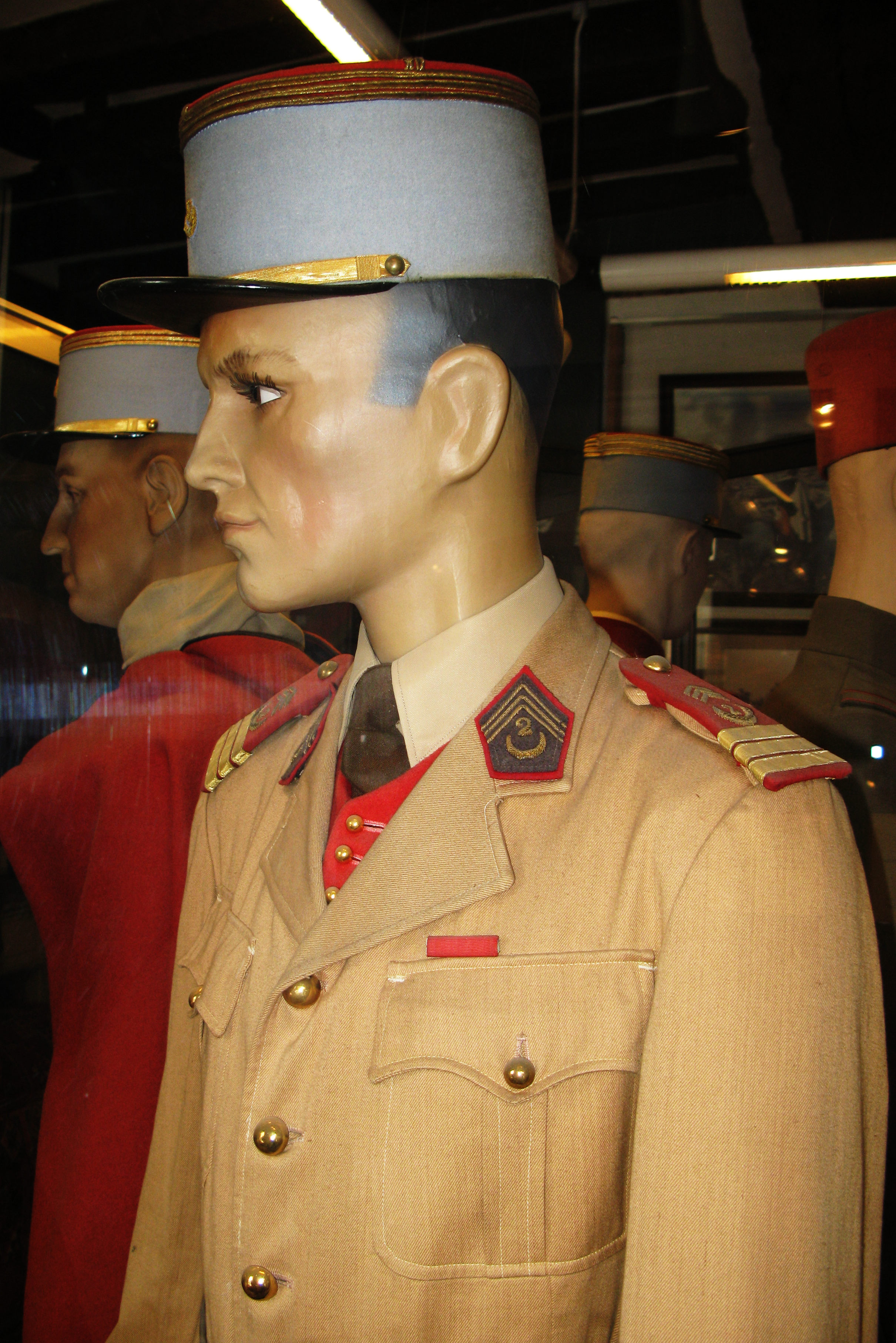 Uniform of a captain of the 2nd Spahis regimentMusée des Spahis, Senlis